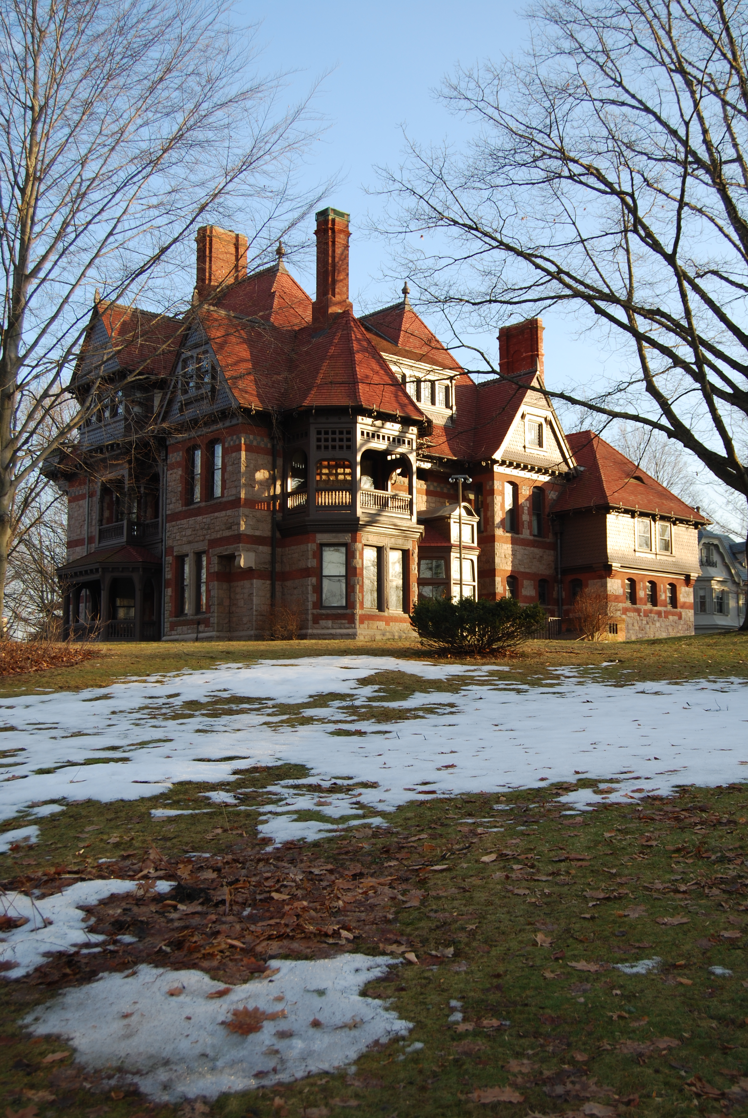 Harriet Beecher Stowe House, Hartford, CT The Harriet Beecher Stowe Center in Hartford, CT, also known as the Katharine Seymour Day House (built 1884). Though the home is next door to the H. B. Stowe House, the Stowes never lived here.